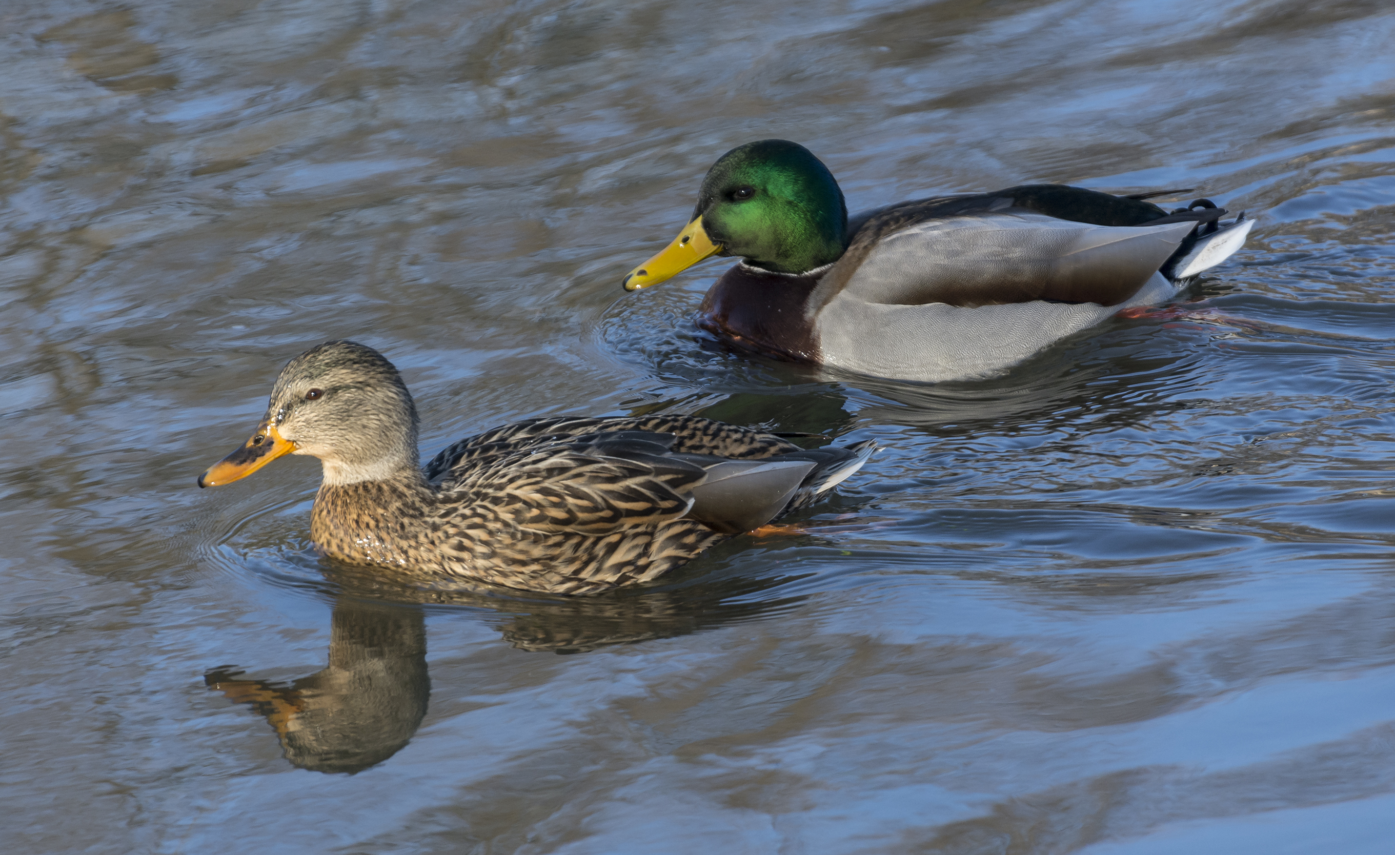 Mallard (Anas platyrhynchos) on the water (mixed pair)